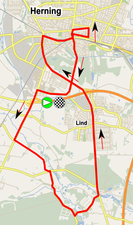 Map of the circuit of the european cycling road championship 2017.